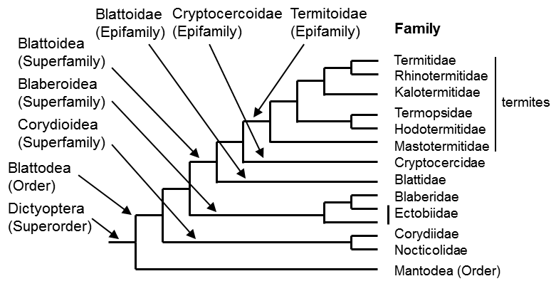 Evolutionary Relationships of Blattodea (cockroaches and termites) from Eggleton, Beccaloni & Inward (2007). The cockroach families Lamproblattidae and Tryonicidae are not shown but are placed within the superfamily Blattoidea. The cockroach families Corydiidae and Ectobiidae were previously known as the Polyphagidae and Blattellidae (see Beccaloni & Eggleton, 2011).